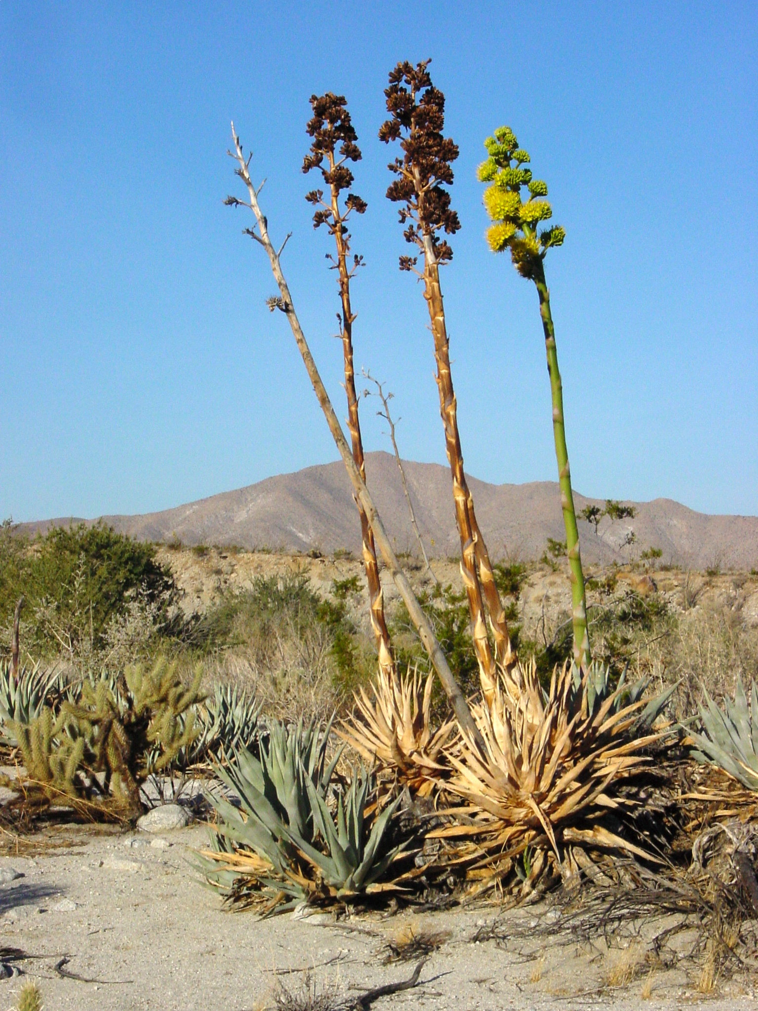 Subject: Agave Deserti — Desert Agave, Mescal. Location: Anza-Borrego Desert State Park, Colorado Desert, California. Credits Author: Noah Elhardt